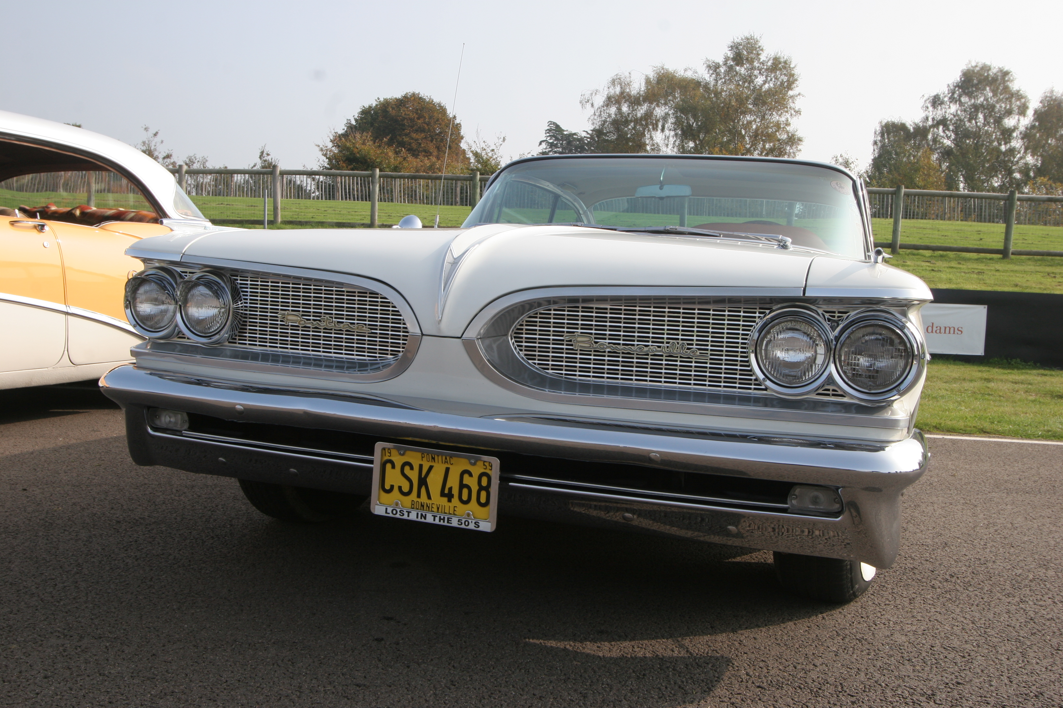 Goodwood Breakfast Club - 1959 Pontiac Bonneville